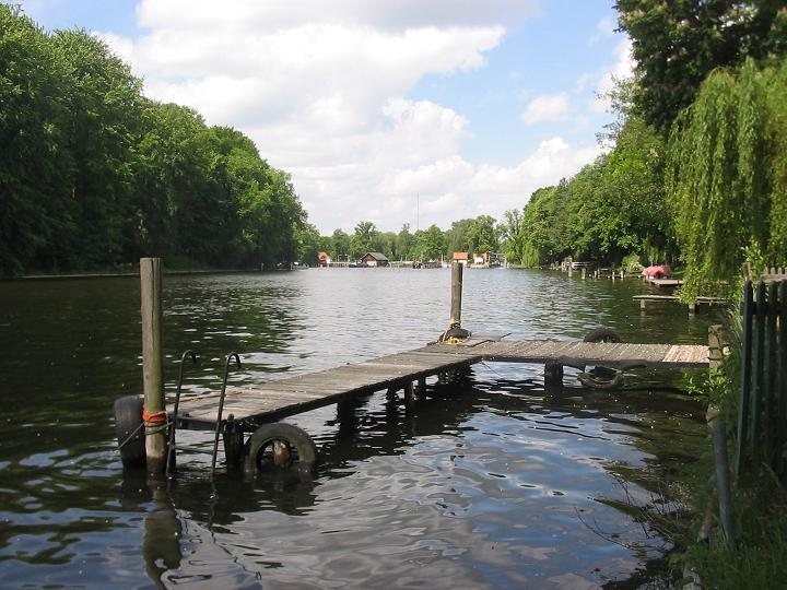 Staabe (part of river Dahme) in the village Neue Mühle, part of the town Königs Wusterhausen in the district Dahme-Spreewald, state Brandenburg, Germany.